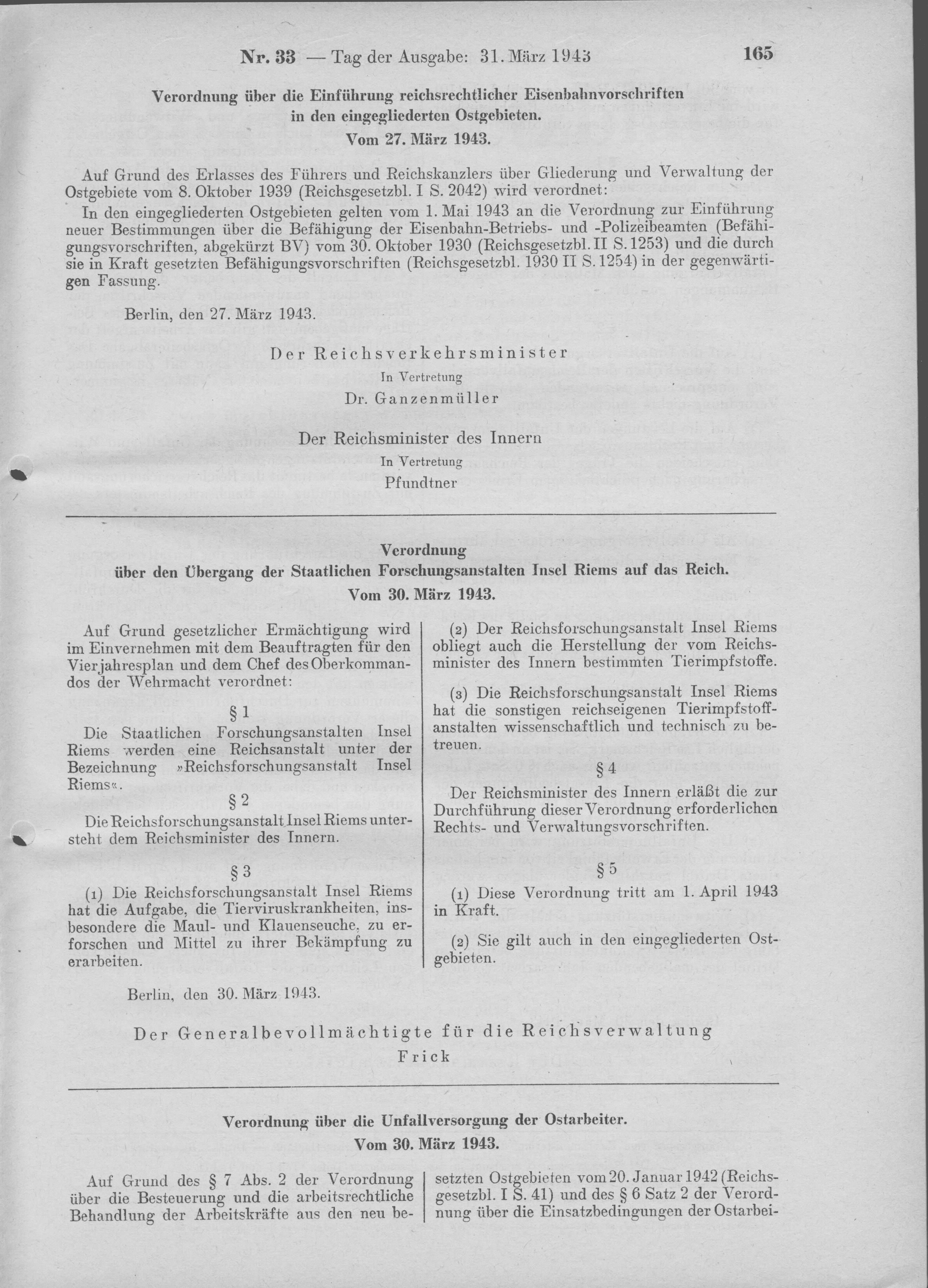 Scan from the Imperial Law Gazette of Germany, 1943, part 1